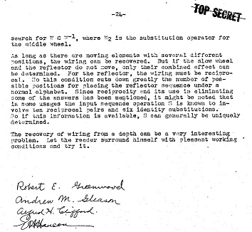 Final page of report describing technique for attacking certain aspects of German Enigma cipher, by US Navy cryptogologists during World War II